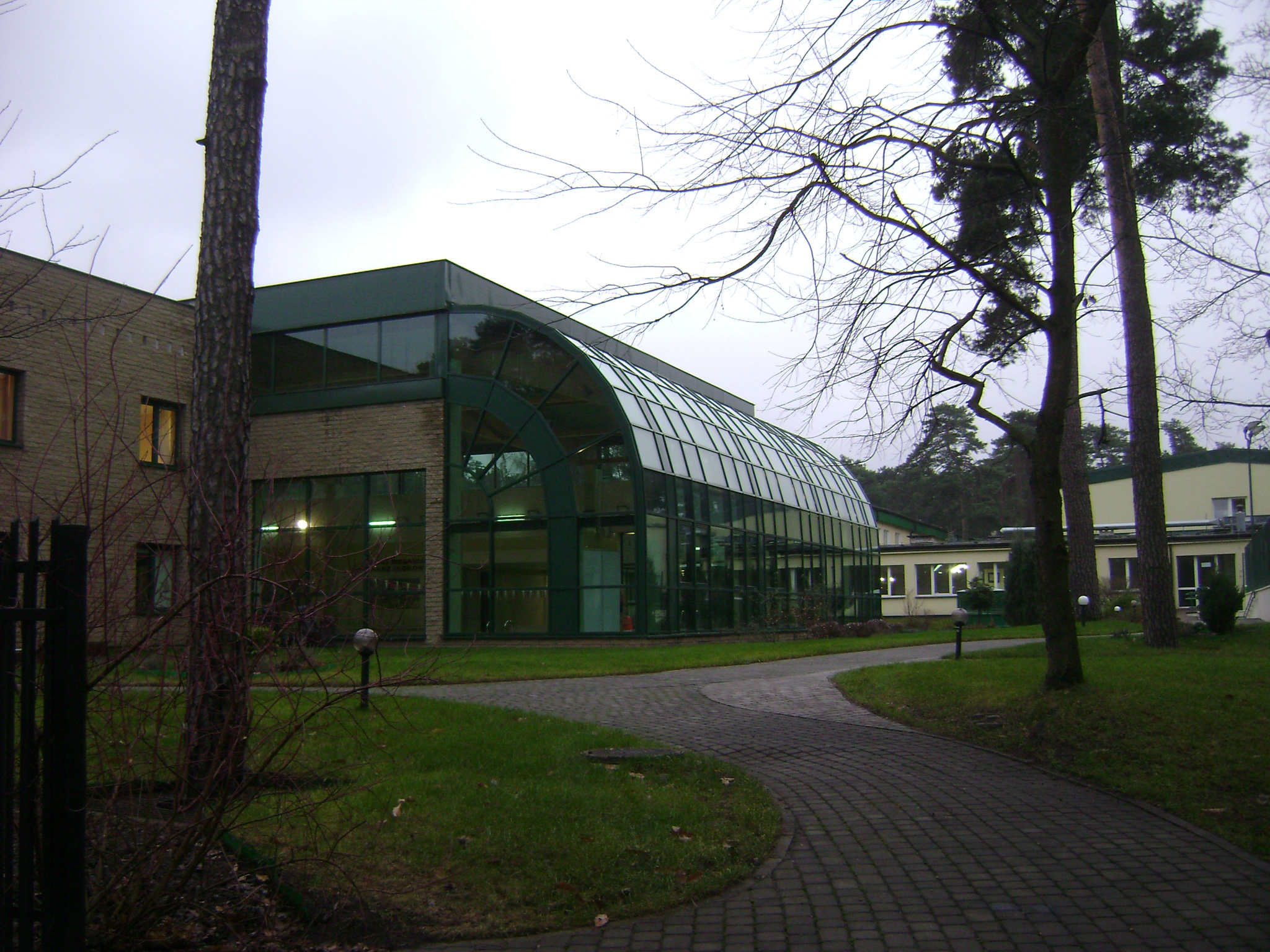 Poland. Konstancin-Jeziorna.